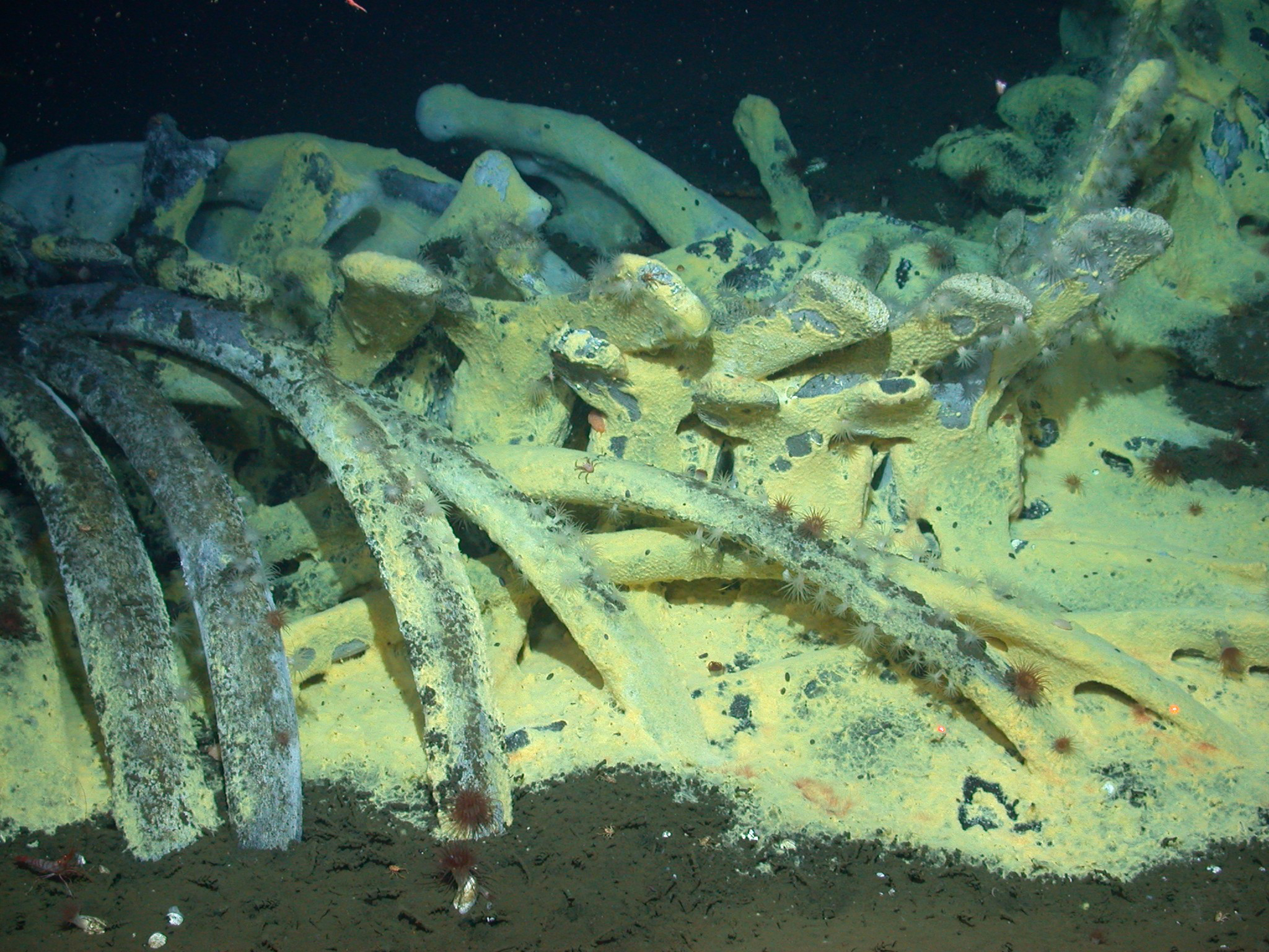 Chemoautotrophic whale-fall community, including bacteria mats, vesicomyid clams in the sediments, galatheid crabs, polynoids, and a variety of other invertebrates. The 35-ton gray whale was originally implanted on the sea floor at 1,674 m depth in the Santa Cruz Basin in 1998. This image was captured six years later by Craig Smith from the University of Hawaii. Image courtesy of Craig Smith, University of Hawaii.